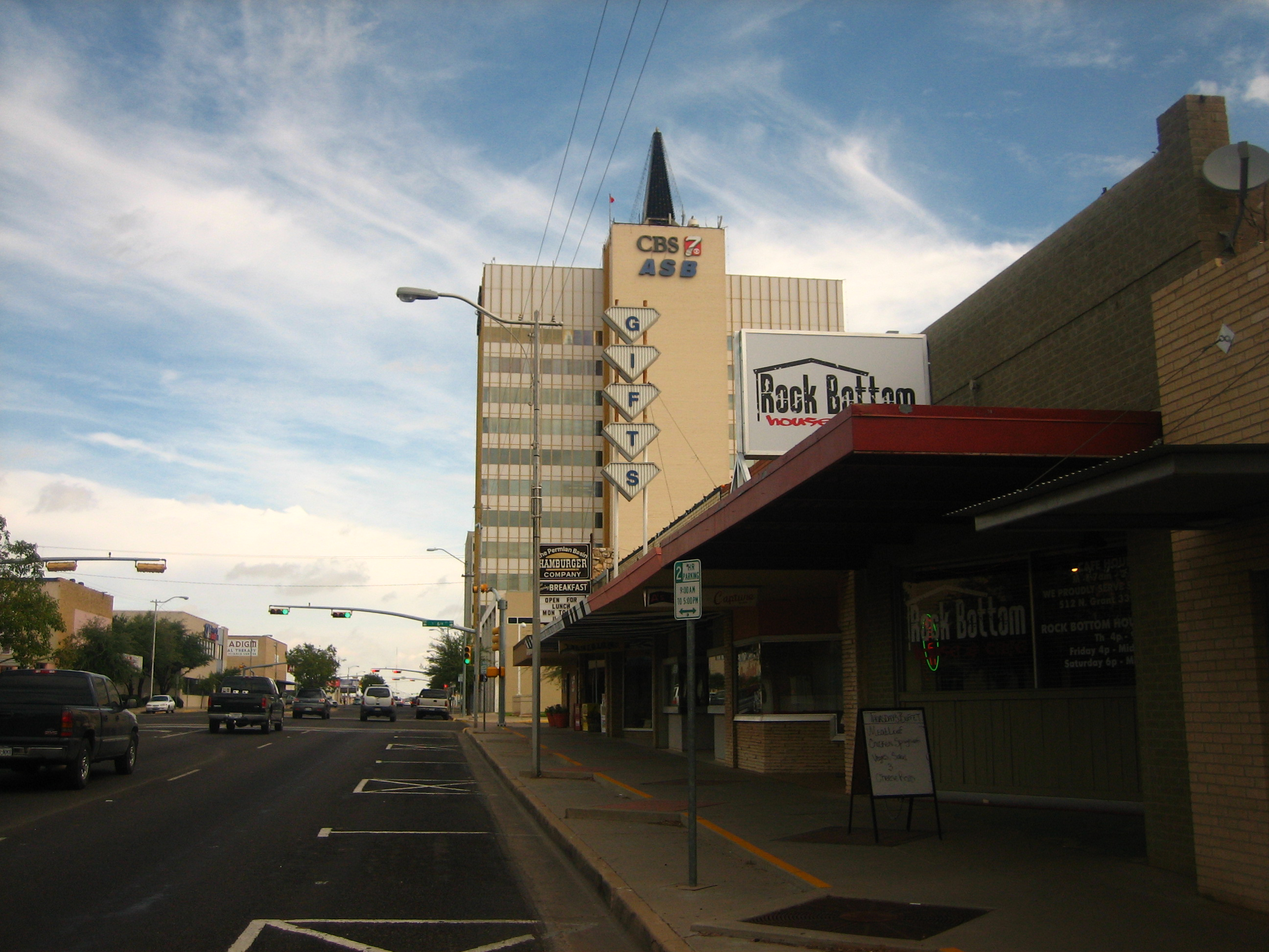 original text: I took photo on July 10, 2008.~~~~